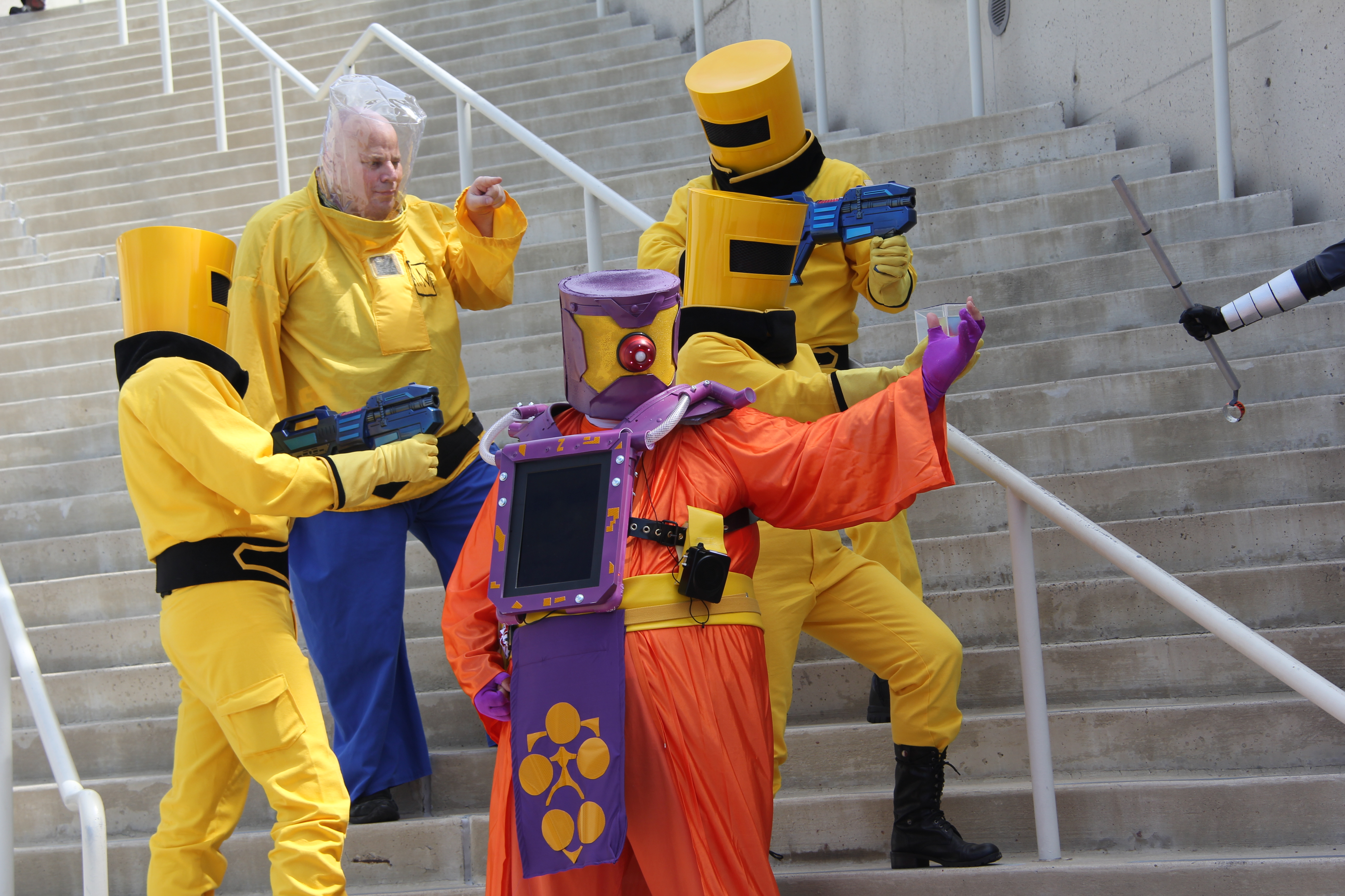 Cosplay at San Diego Comic Con 2015.